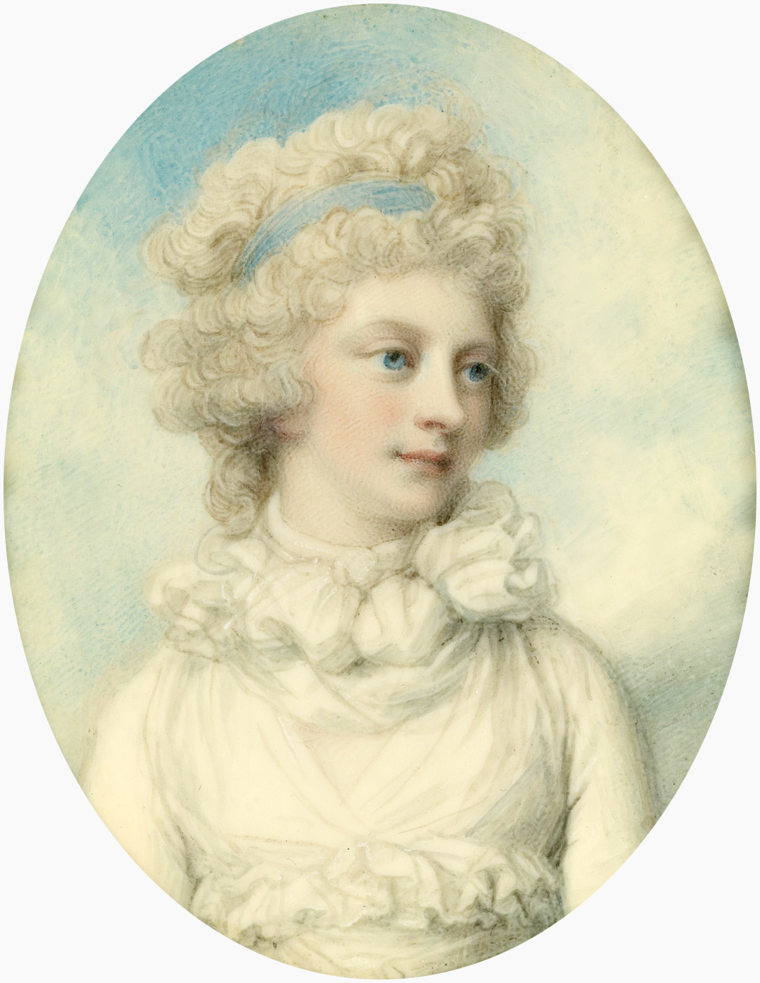 Portrait of Princess Sophia of the United Kingdom (1777-1848)